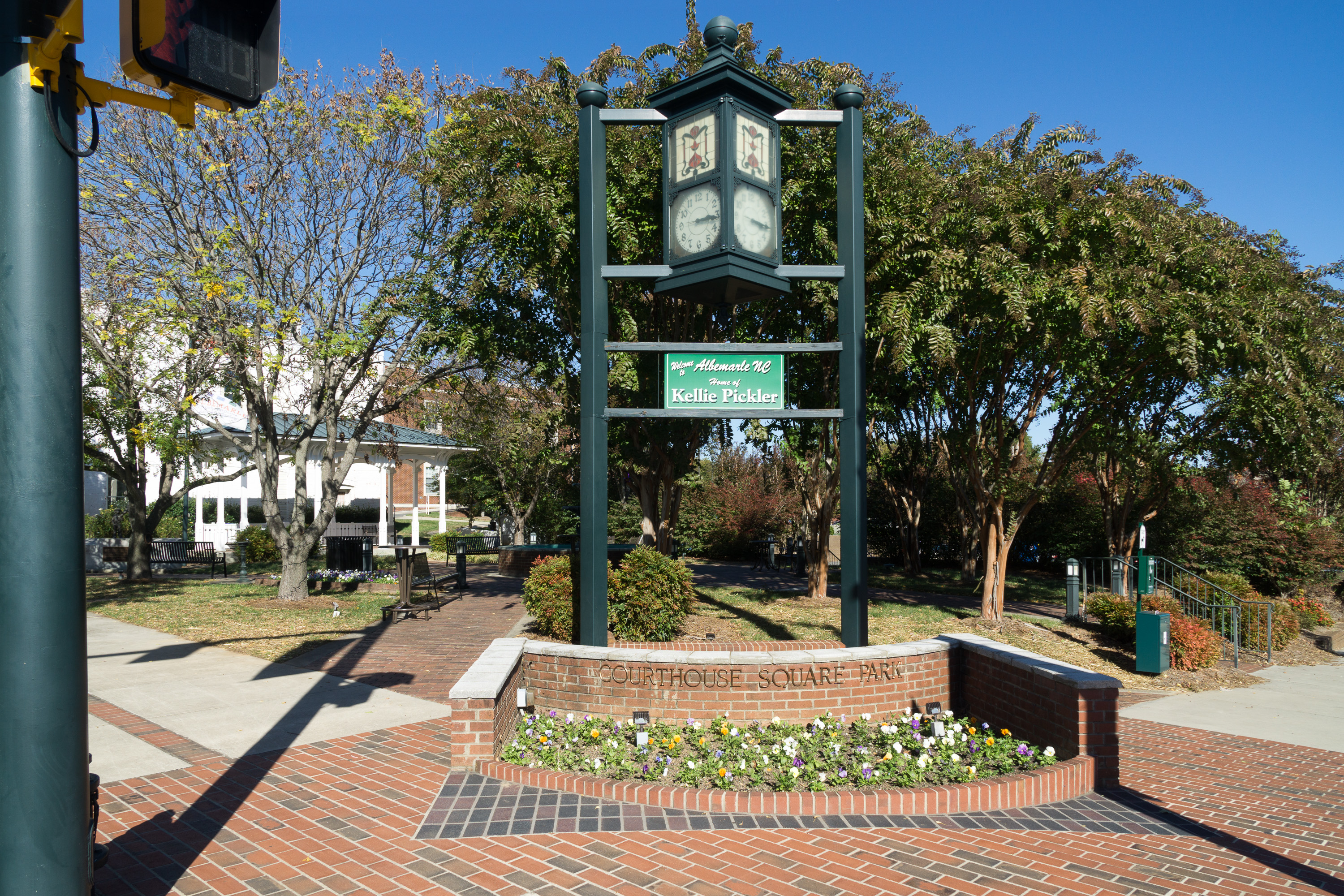 Courthouse Square Park, Albemarle, North Carolina